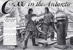 11 O'Clock Oxo on board the Terra Nova, advert published some 9 months after Scott's death which was still unknown back in England This picture is the copyright of the Lordprice Collection and is reproduced on Wikipedia with their permission Source URL